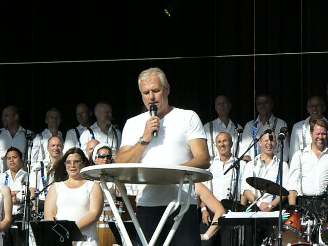 Swedish footballer Glenn Hysén opens Stockholm Pride 2007